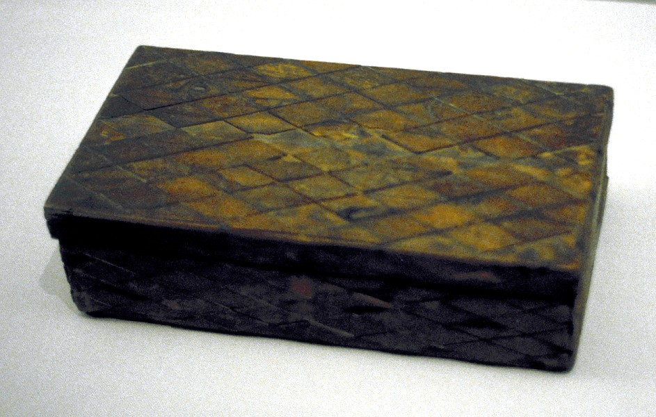 JINKO_MOKUGABAKO. Rectangular box. Magnolia (Magnolia obovata) wood covered with slabs of agarwood. 19.7x37.6cm, 8th century, Japan, Formerly in Horyuji-temple, Tokyo National Museum, Tokyo, Japan 木画経箱、奈良時代8世紀、法隆寺献納宝物、東京国立博物館